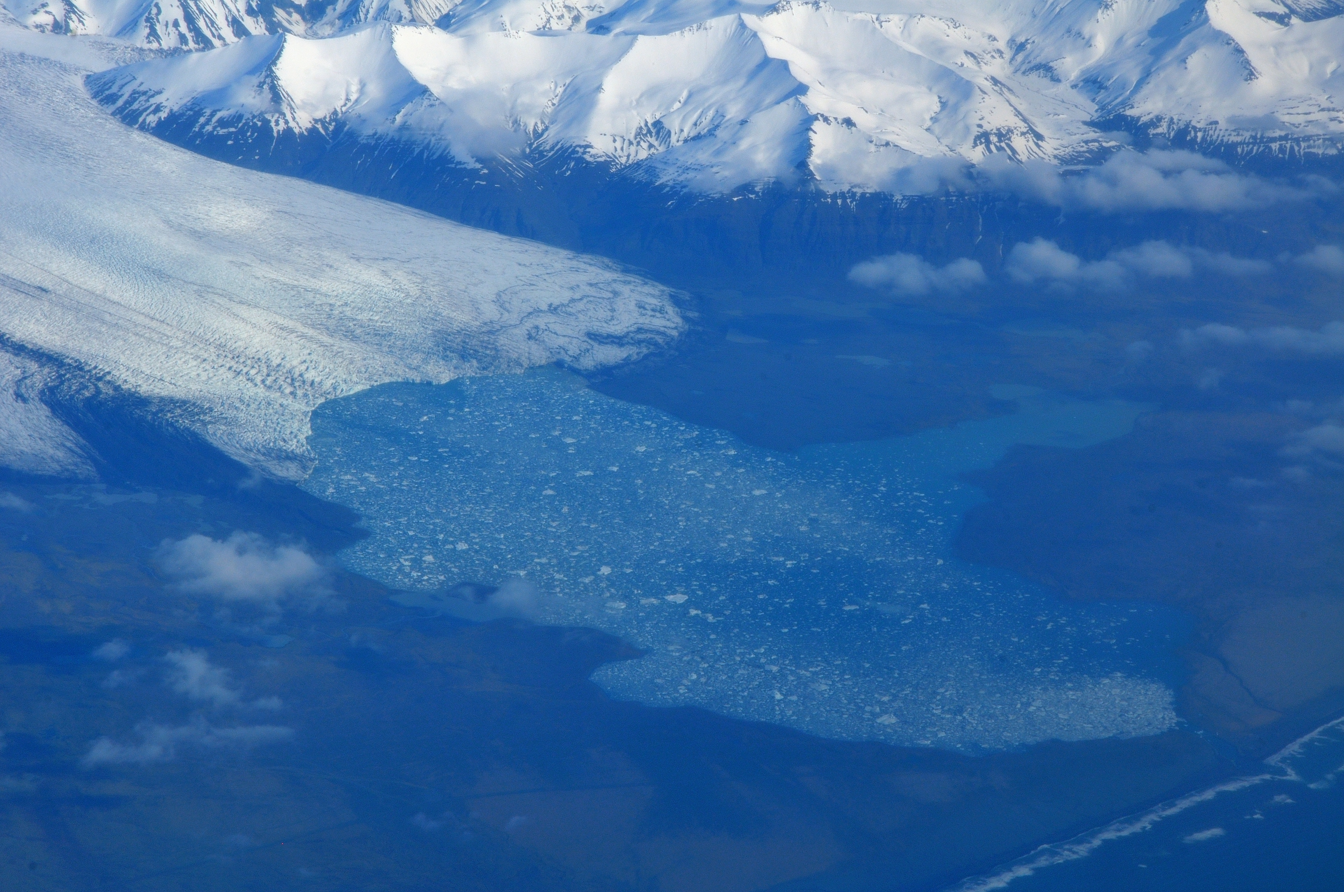 Iceland, picture take during the approach into KEF, unfortunately through a pretty dirty window.